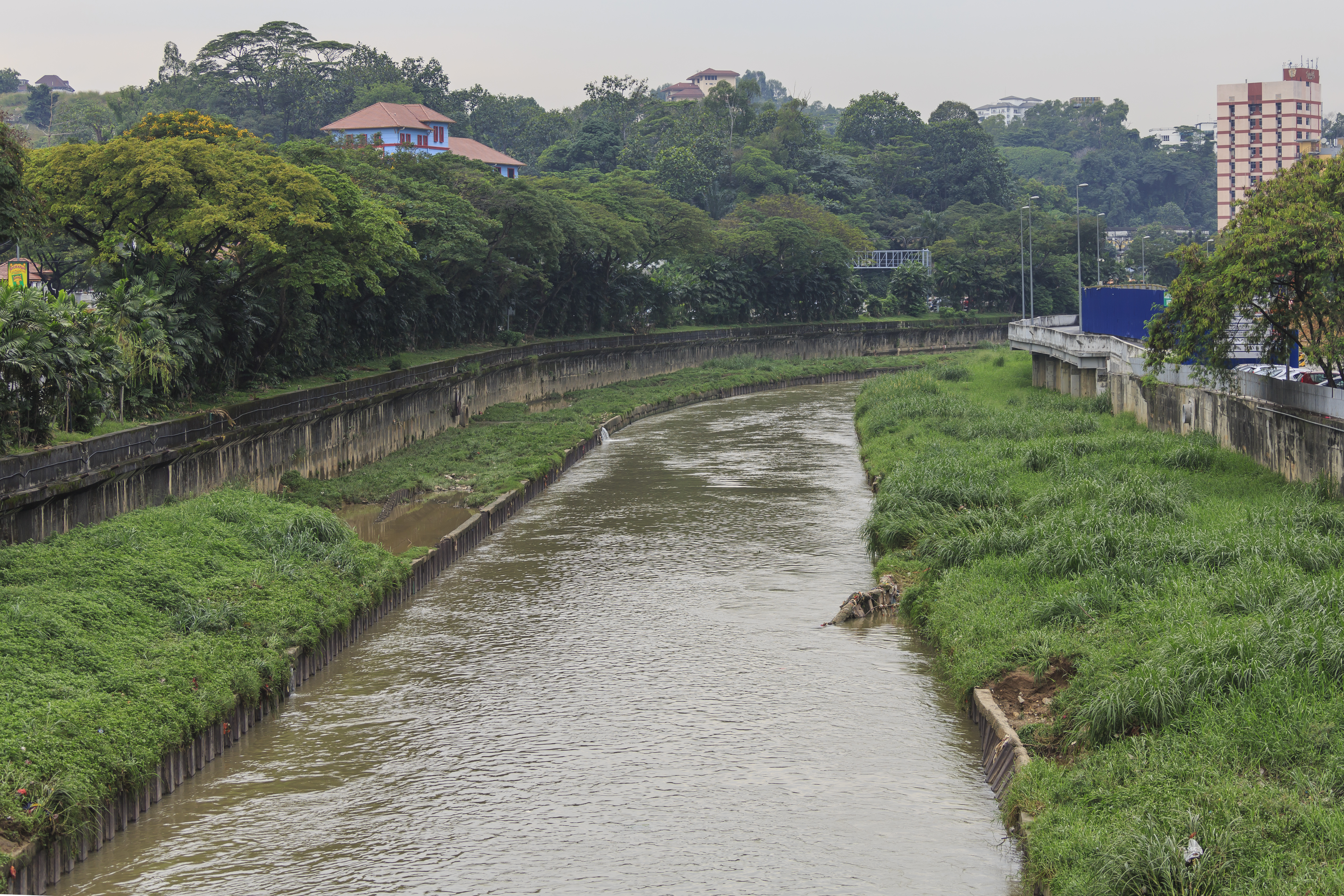 Kuala Lumpur, Malaysia: Klang River near Tun Sambanthan Monorail Station